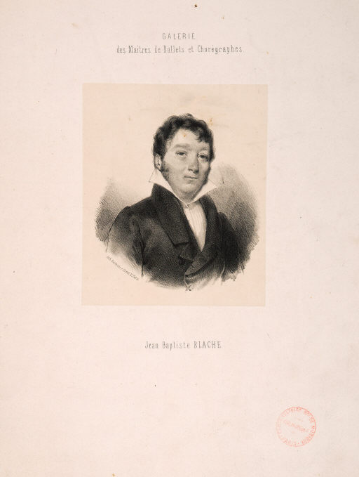 Jean-Baptiste Blache, gravure anonyme (c. 1830)